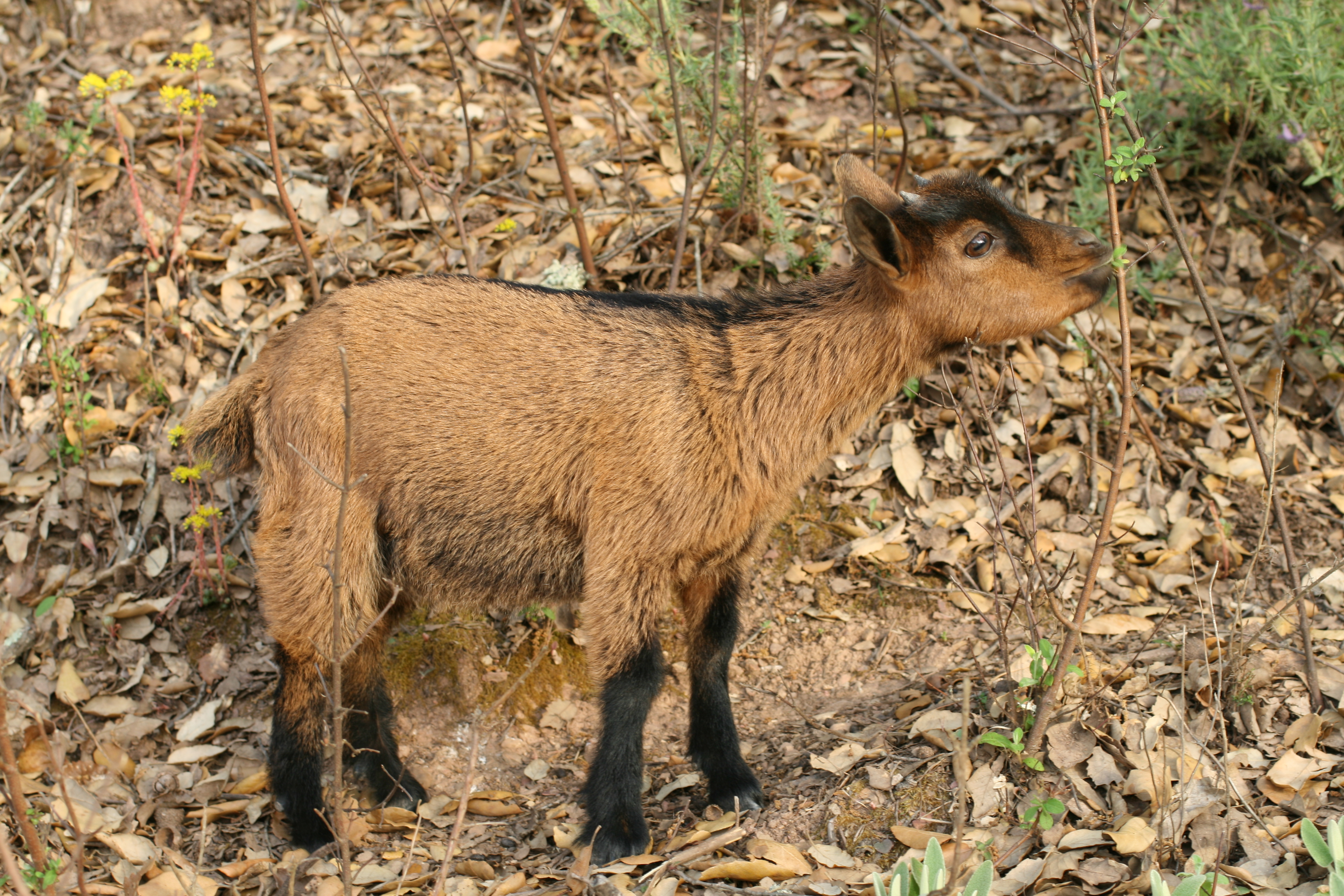 African dwarf goat seen in Algarve, Portugal. The owners kept him and his family so that they would eat the plants in order to prevent fire.